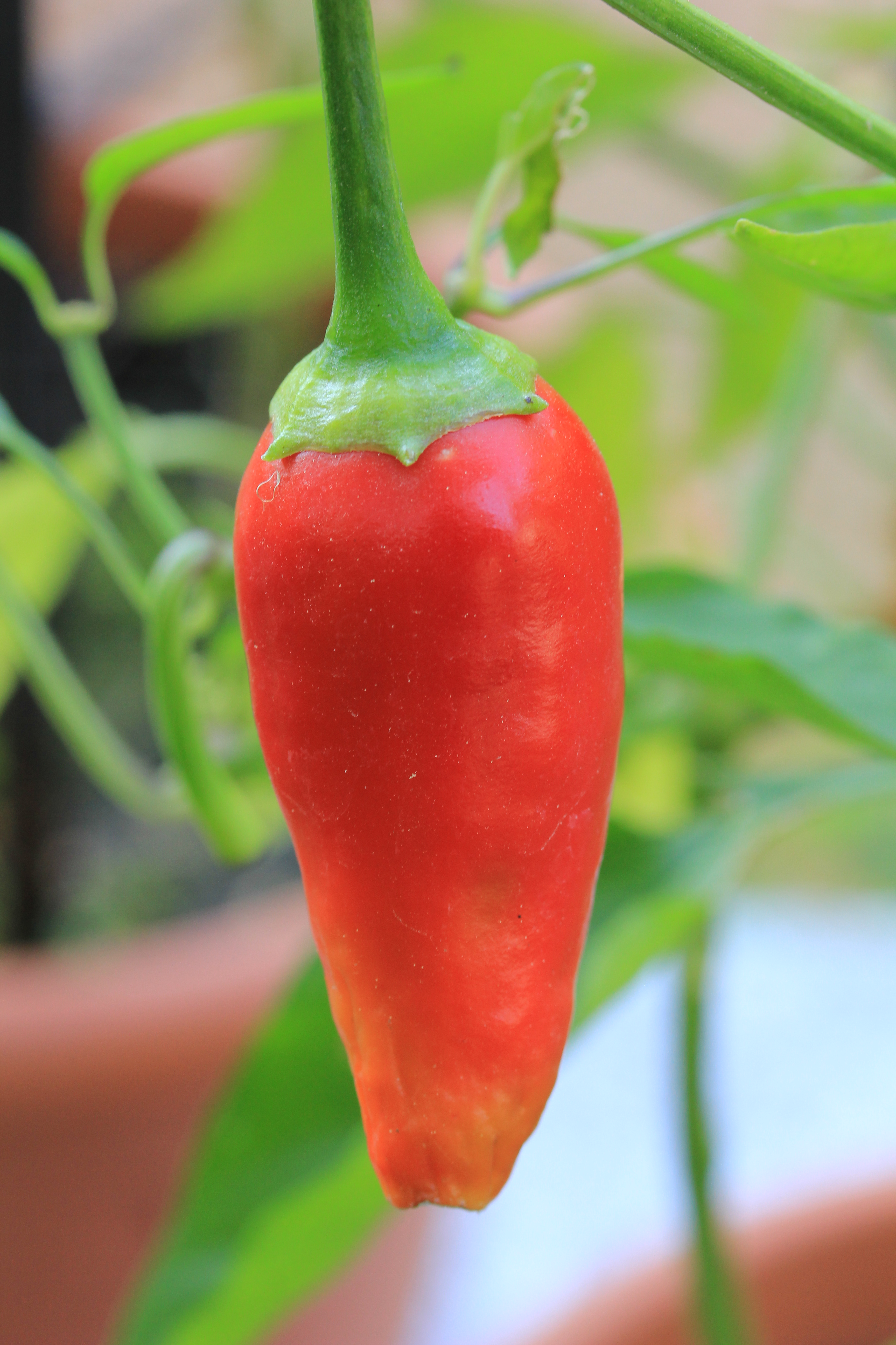 chili pepper . Locality: Jardin Henri Gaussen (Toulouse), France.